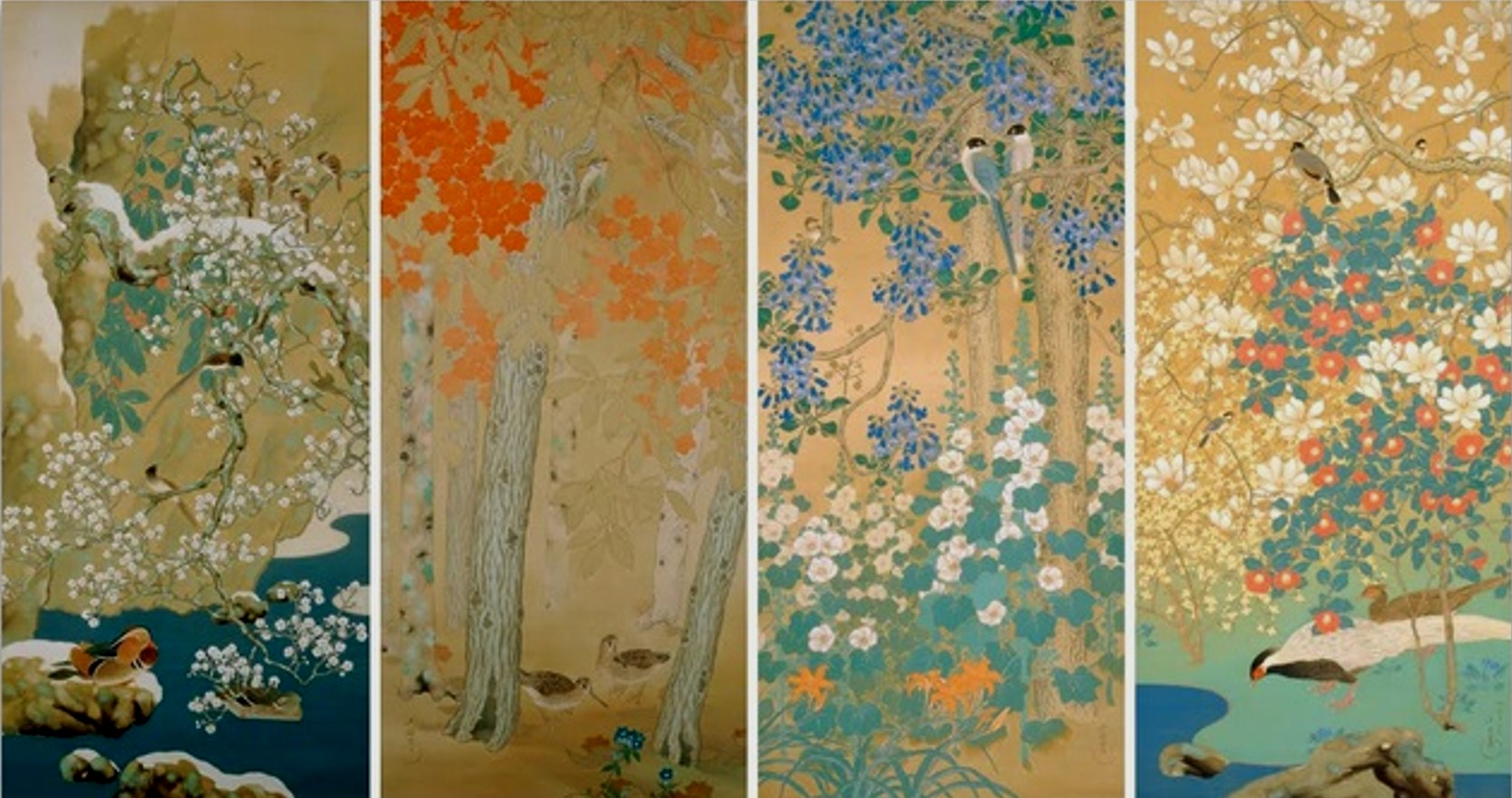 from right to left, spring, summer, autumn, and winter